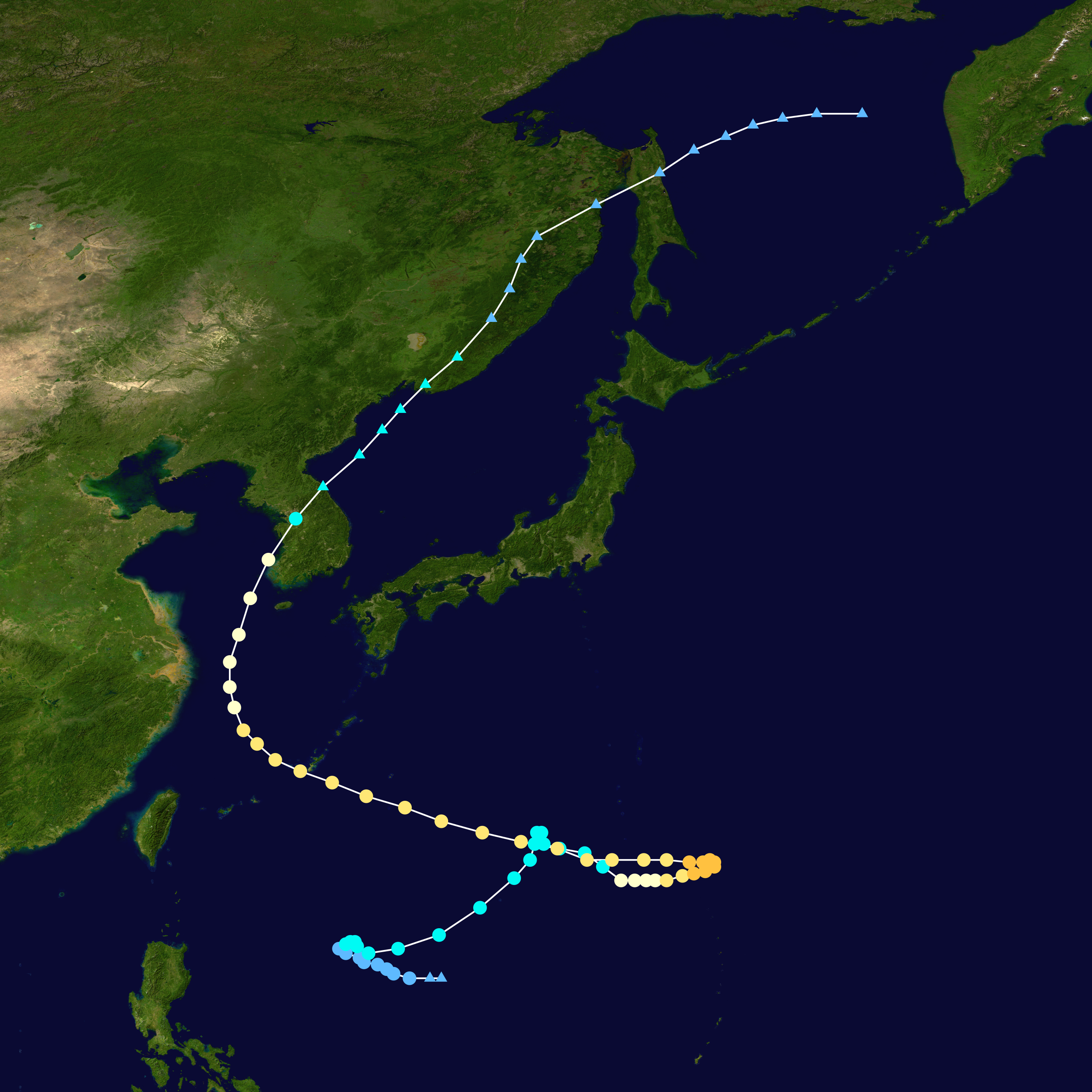 Typhoon Vera2 1986 track. Uses the color scheme from the Saffir-Simpson Hurricane Scale.